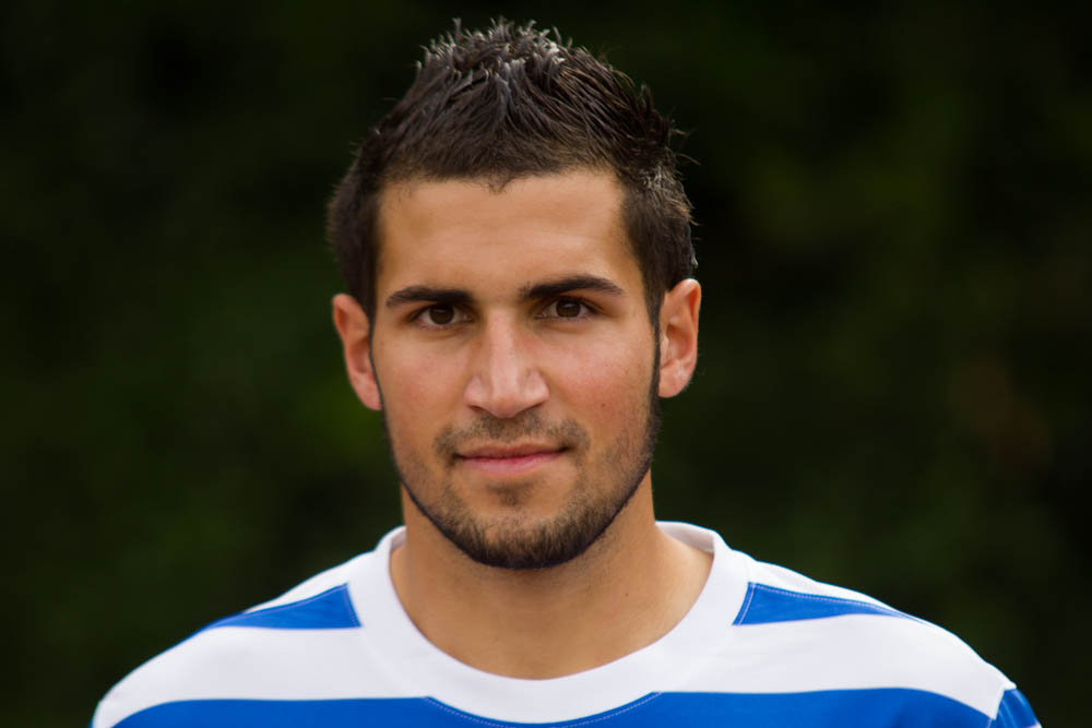 German-Turkish football player Deniz Aycicek, MSV Duisburg